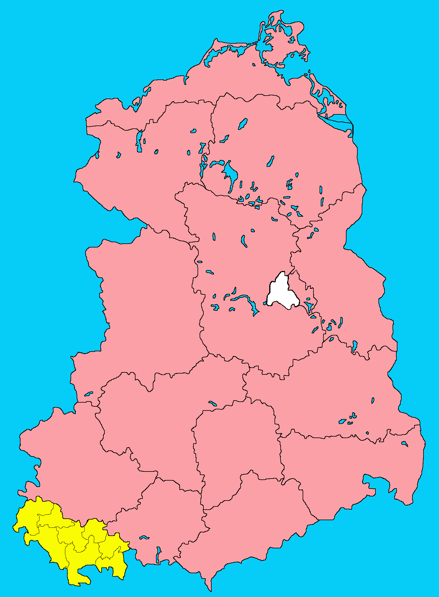 Map of the District of Suhl in the German Democratic Republic (East Germany). The districts existed between 1952 and 1990. All of the district's area belongs now to the Free State of Thuringia.